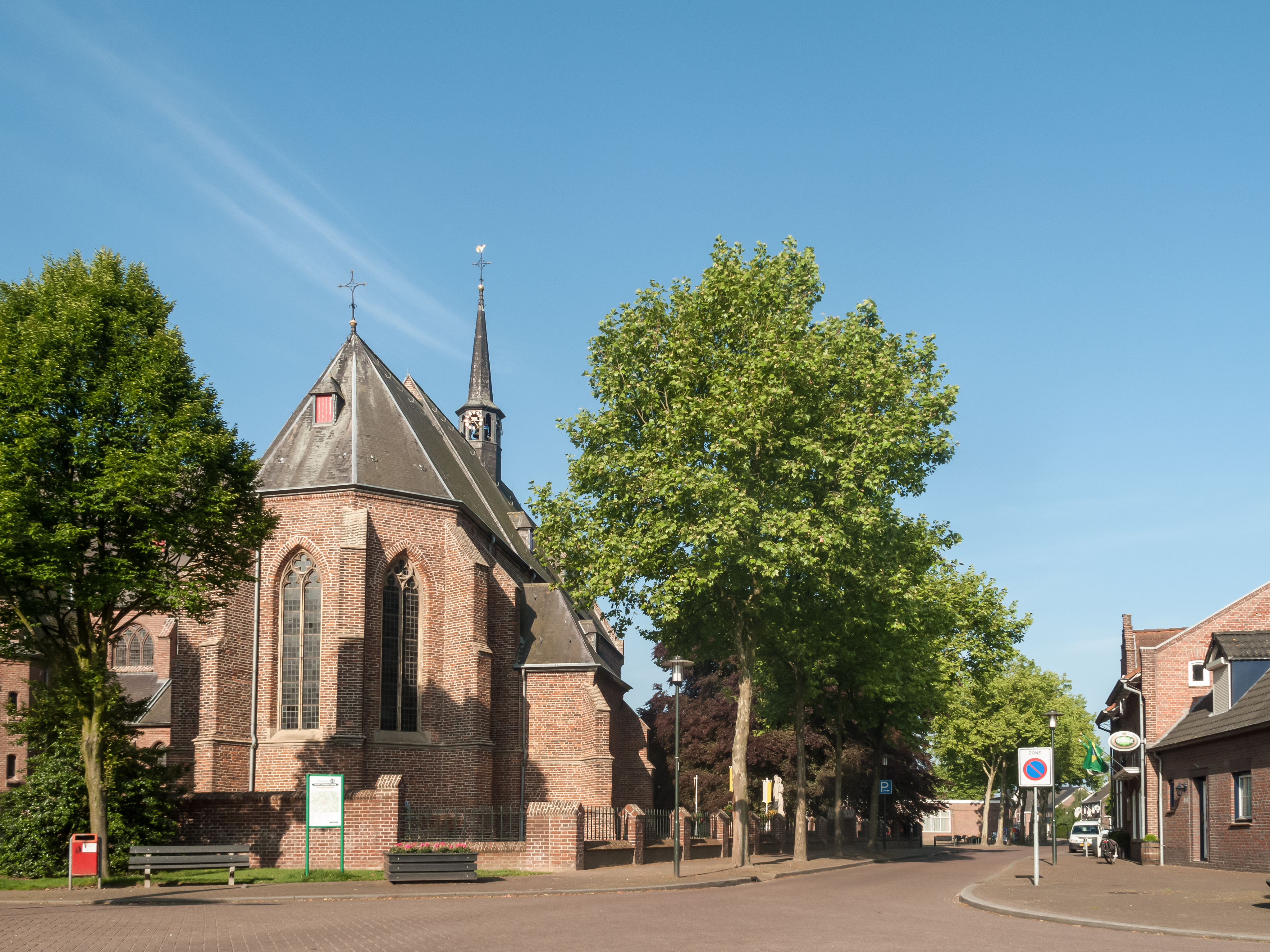 Oostrum, church: de Onze Lieve Vrouwekerk